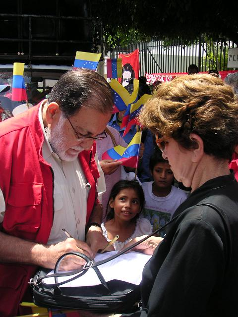 Shafik Handal hands over a declaration of solidarity to the ambassador of Venezuela.